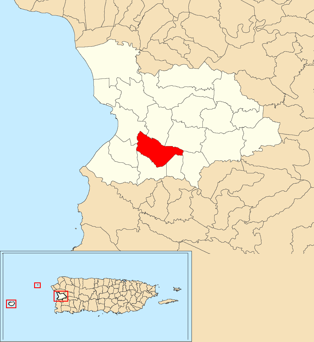 Quebrada Grande, Mayagüez, Puerto Rico locator map